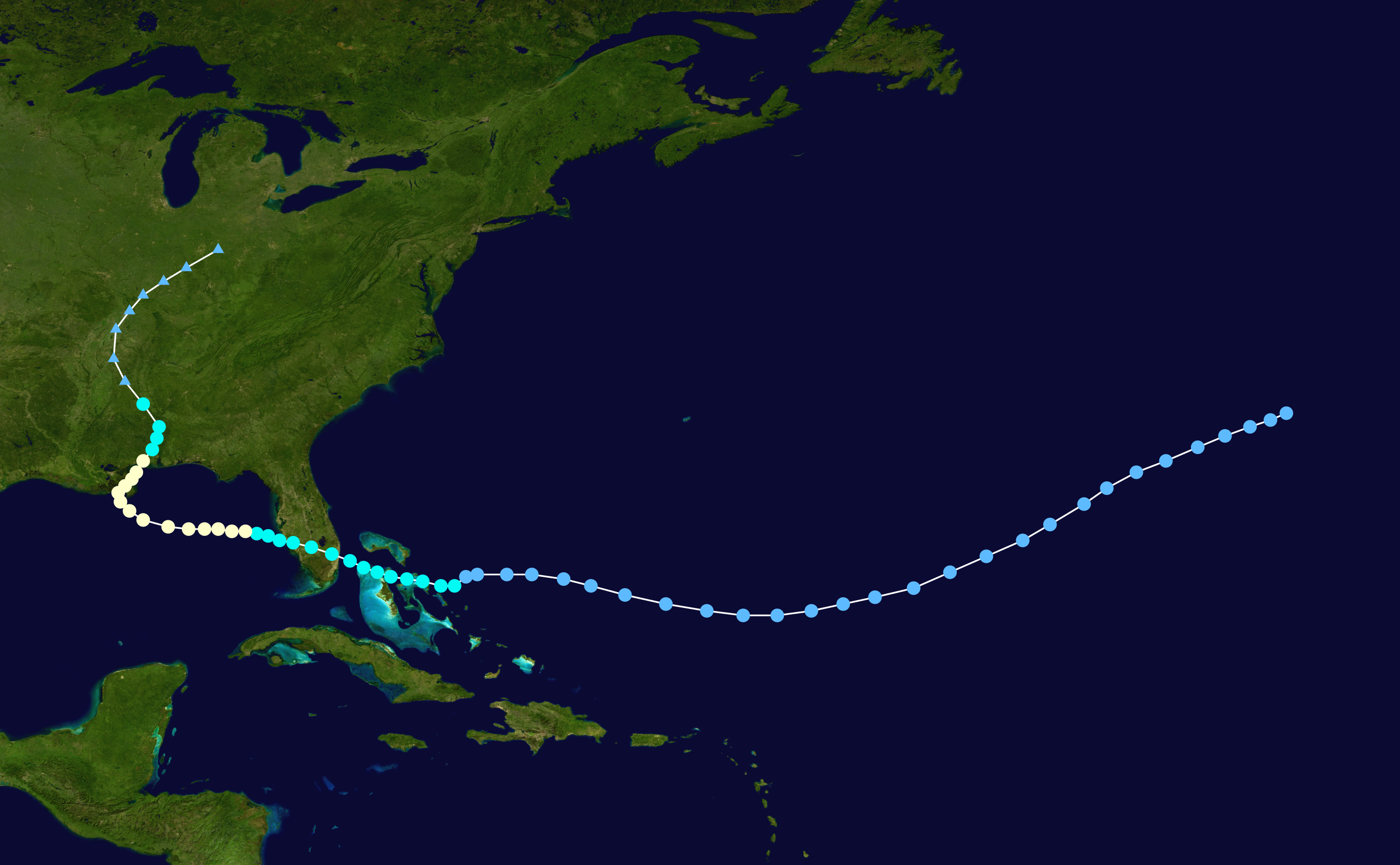 Track map of The Louisiana Hurricane of 1901 of the 1901 Atlantic hurricane season. The points show the location of the storm at 6-hour intervals. The colour represents the storm's maximum sustained wind speeds as classified in the Saffir–Simpson scale (see below), and the shape of the data points represent the nature of the storm, according to the legend below. Saffir–Simpson scale Tropical depression≤38 mph≤62 km/h Category 3111–129 mph178–208 km/h Tropical storm39–73 mph63–118 km/h Category 4130–156 mph209–251 km/h Category 174–95 mph119–153 km/h Category 5≥157 mph≥252 km/h Category 296–110 mph154–177 km/h Unknown Storm type Tropical cyclone Subtropical cyclone Extratropical cyclone / Remnant low / Tropical disturbance / Monsoon depression